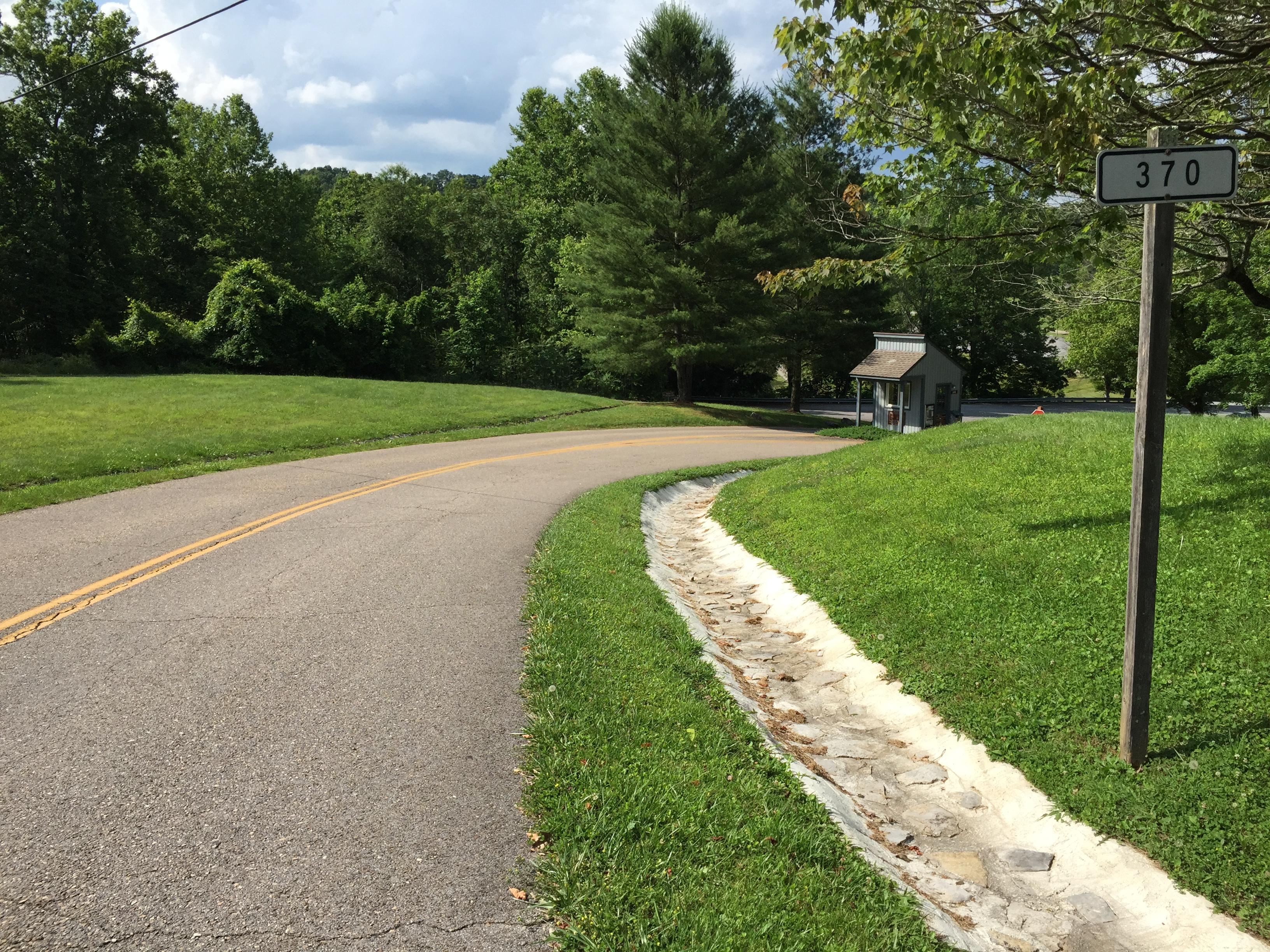 View north along Virginia State Route 370 just north of Bishoptown Road (Virginia State Secondary Route 646) at Natural Tunnel State Park in Scott County, Virginia